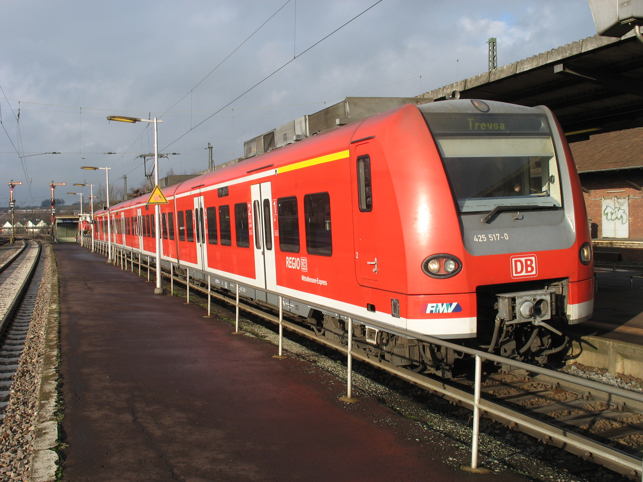 The 'Mittelhessen-Express' from Frankfurt to Treysa stopped in Stadtallendorf on 17 December 2006